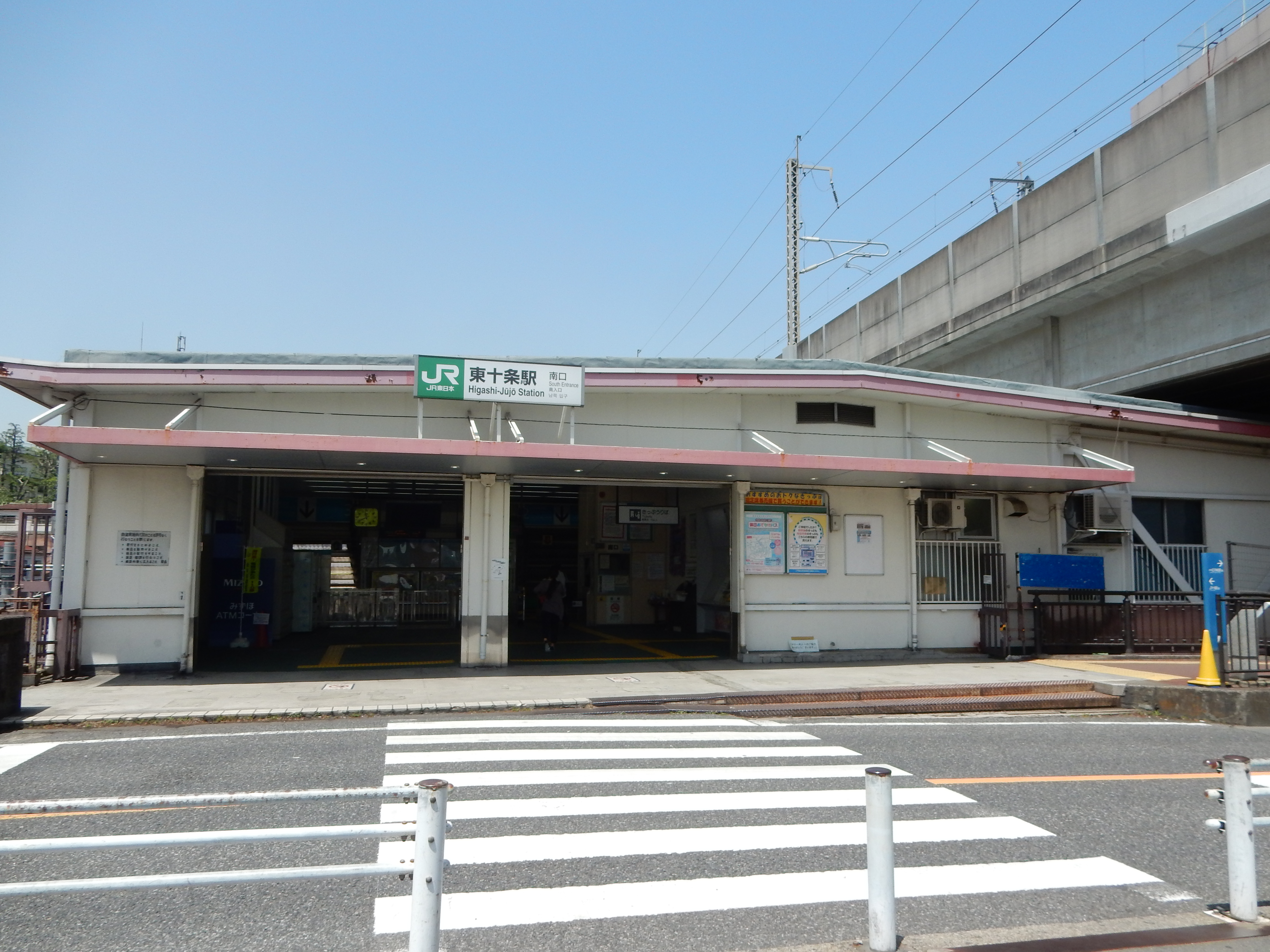 Higashi-Jūjō Station, located at 3-18-51 Higashi-Jūjō, Kita, Tokyo, Japan